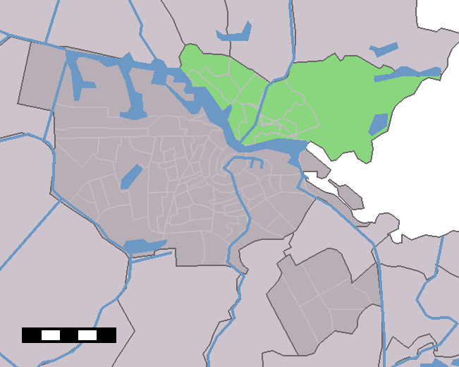 Location of neighbourhoods/districts in Amsterdam